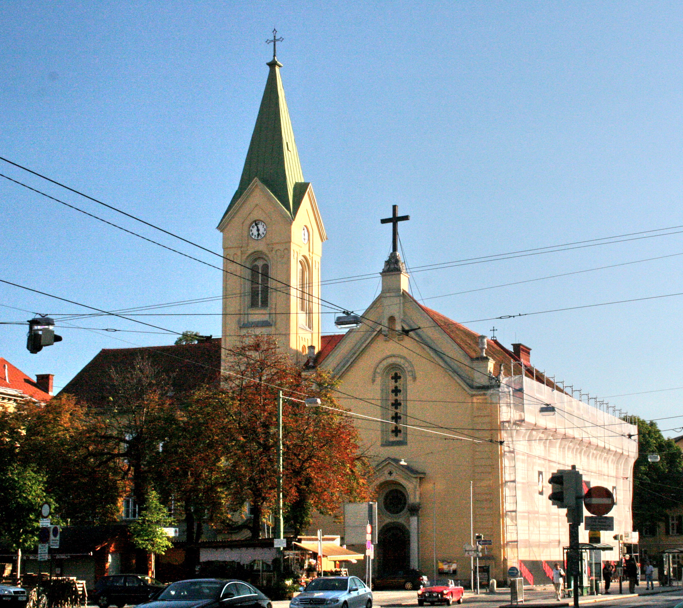 Heilandskirche in Graz, Austria, Europe